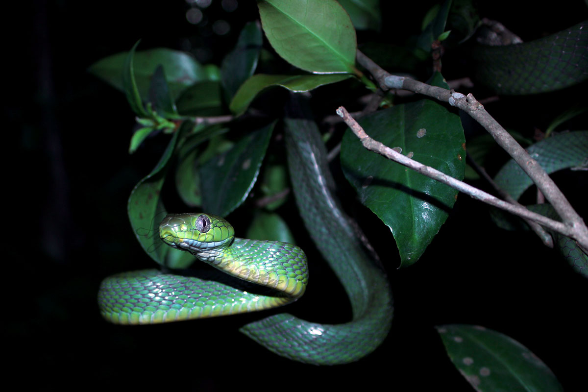 The green cat snake, Boiga cyanea, is a species of nocturnal opisthoglyphous snake found in India.